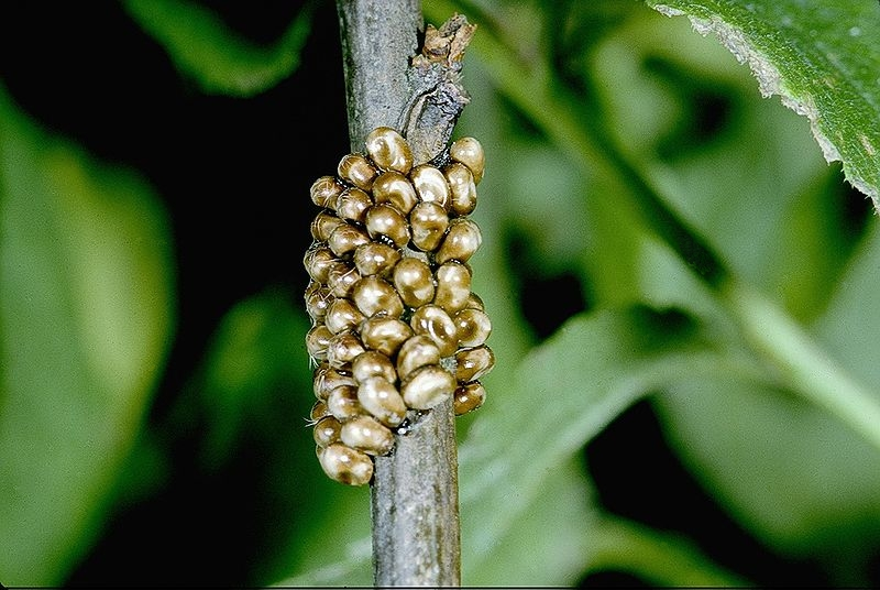 Eggs from butterfly moth SATURNIA PAVONIA (french:Petit paon de nuit) photographed in breeding cage. Picture N°1 / 11.